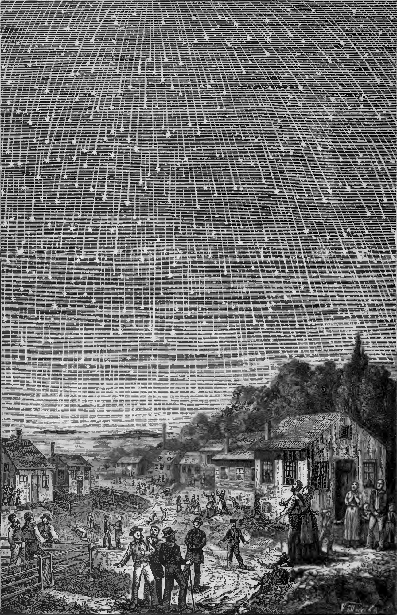 The most famous depiction of the 1833 actually produced in 1889 for the Adventist book Bible Readings for the Home Circle - the engraving is by Adolf Vollmy based upon an original painting by the Swiss artist Karl Jauslin, that is in turn based on a first-person account of the 1833 storm by a minister, Joseph Harvey Waggoner on his way from Florida to New Orleans.